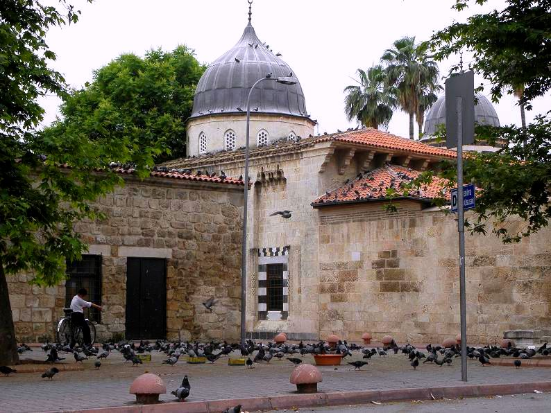 Adana Ulu Cami